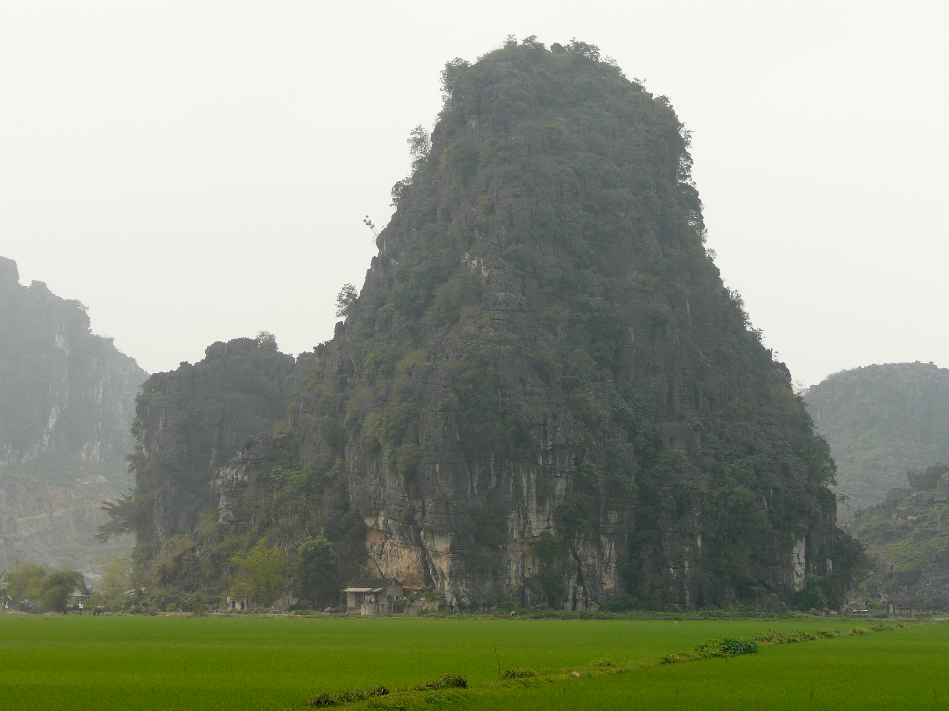 This photo is of a typical limestone mountain in the area of Hoa Lu, the capital of Vietnam in the second half of the 10th century. The human dwelling at the base of the mountain can be used to get an idea of its size.